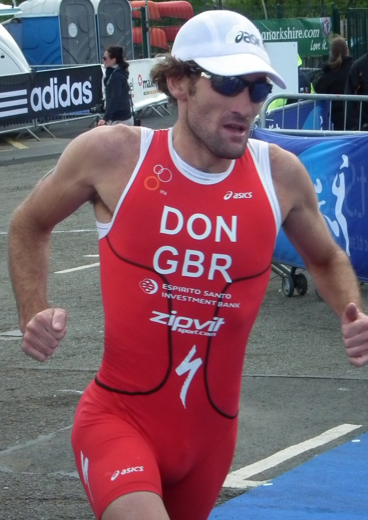 Tim Don on the run section of the Strathclye Park Triathlon.